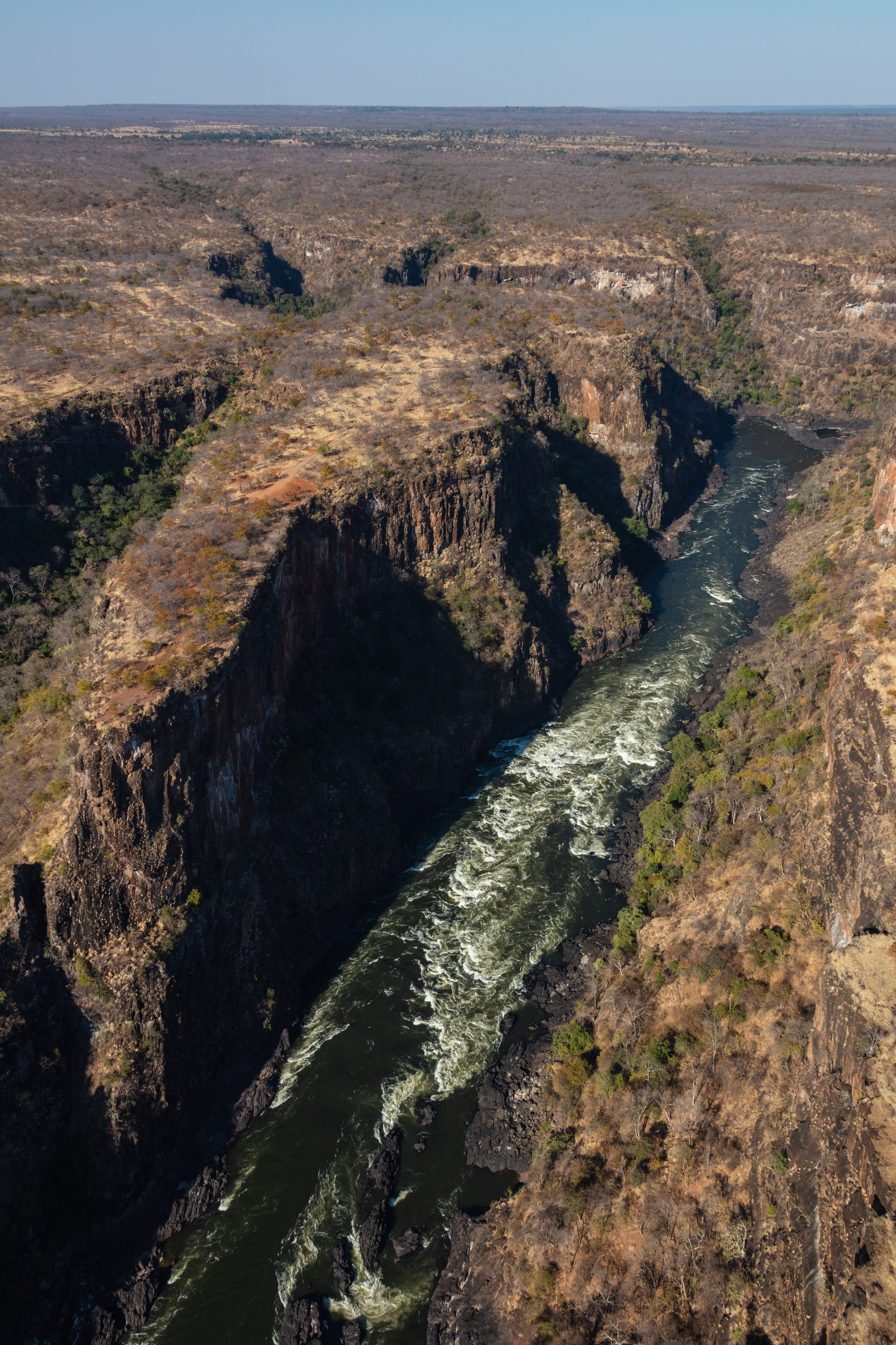 Zambezi River, Zambia-Zimbabwe